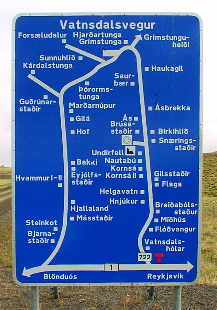 A large example of a typical Icelandic Road sign showing the way to lots of farms and villages